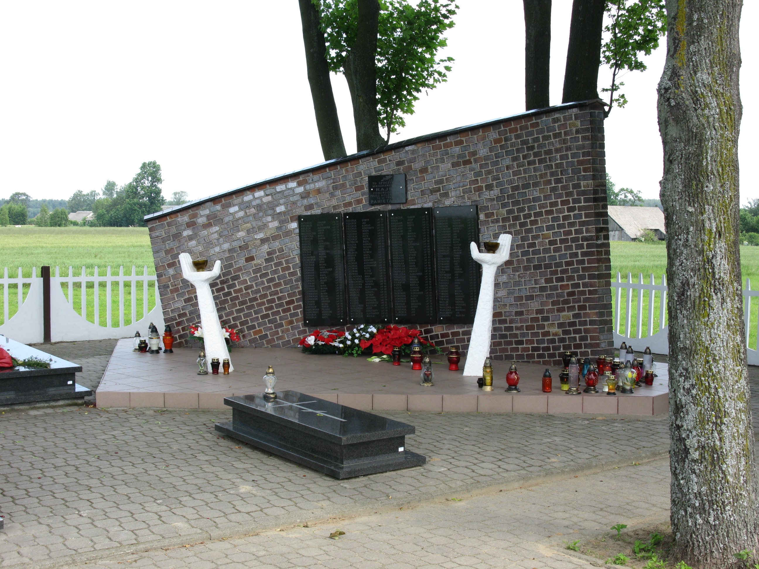 Memorial of victims of Rajsk pacifiation. The photo was taken day after 70th anniversary.